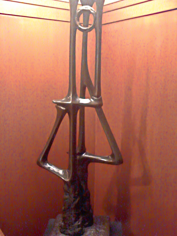 Family, 1971. Sculpture by Clifford Last. A gift to the Asian Development Bank (ADB). On display at the ADB headquarters, Manila, Philippines.